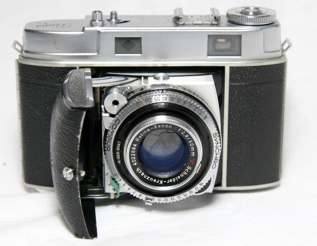 Very good working condition once the shutter was unstuck & exercised.